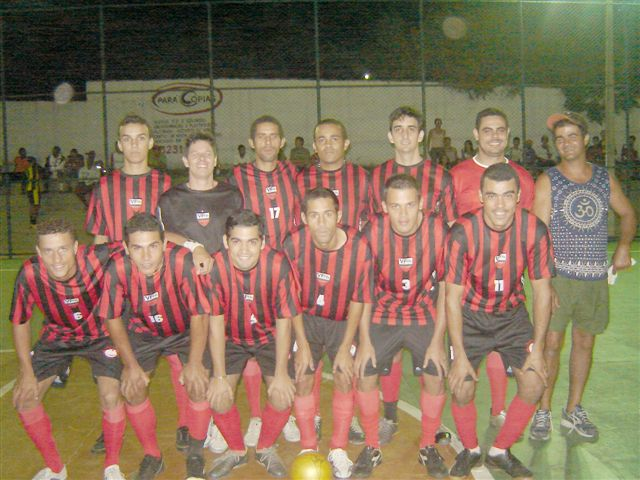 Vilense in 2007, great players, but the whole was no longer the same.